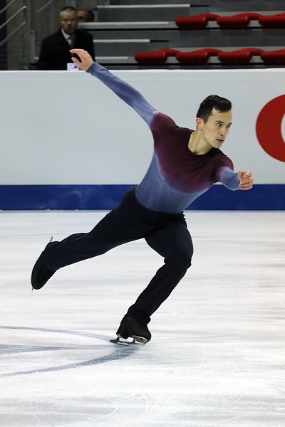 Patrick Chan during the Grand Prix Final 2016/2017